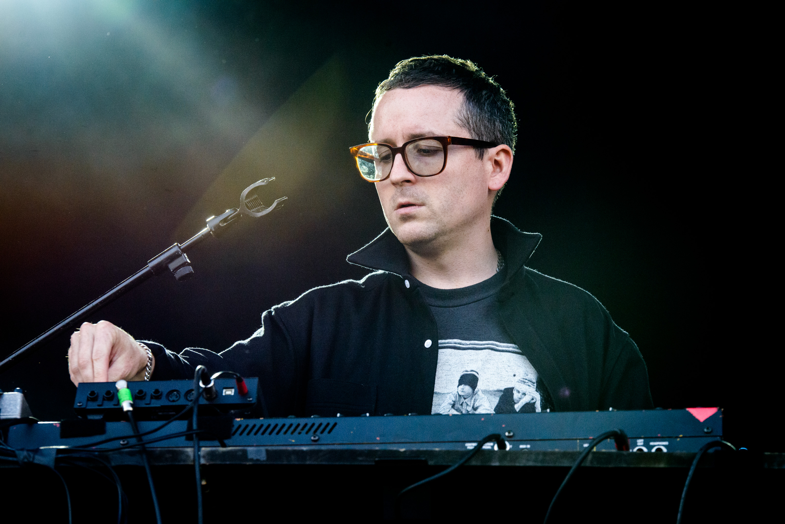 Hot Chip @ Lollapalooza 2015